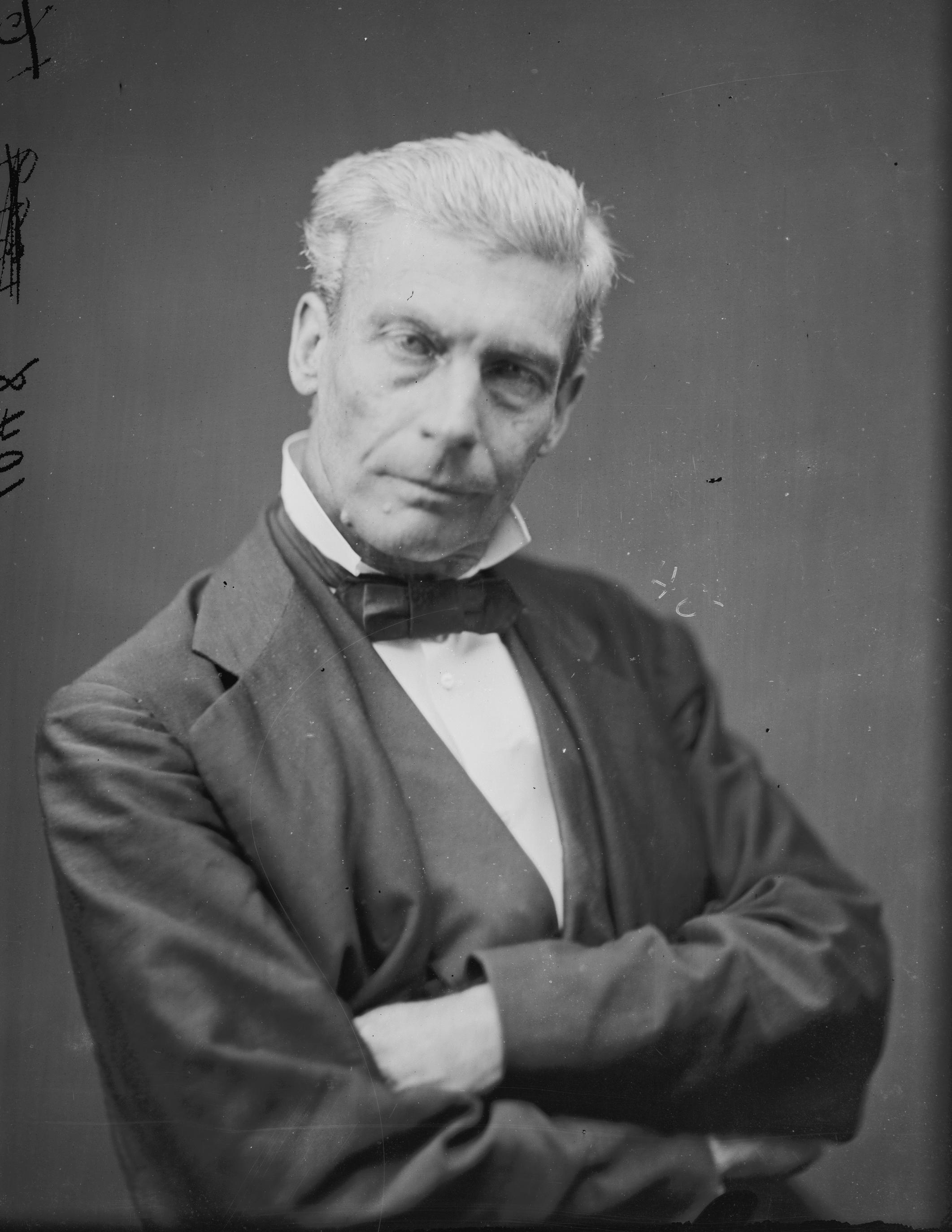 William Harrell Felton. Library of Congress description: "Felton, Hon. Wm Harrell of GA. Served as a surgeon during Civil War"